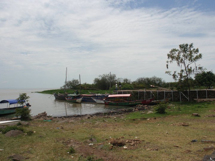 Dunga beach, Kisumu (Kenya)